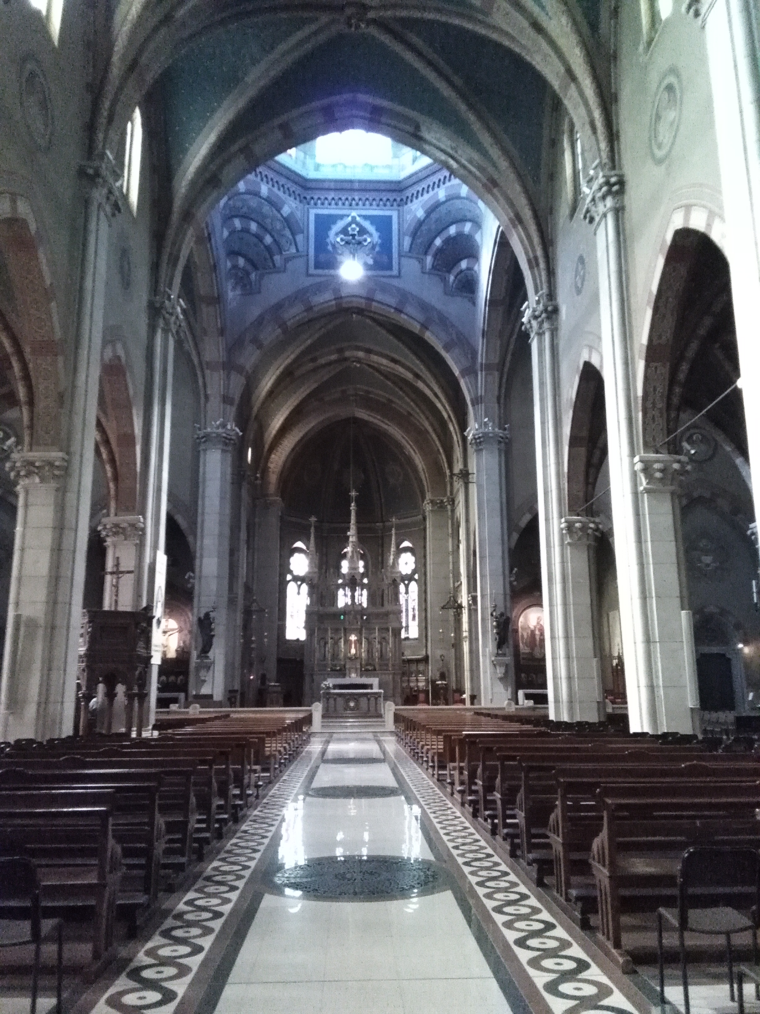 Prepositurale di Lissone, navata centrale